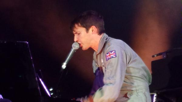 James Blunt headlined Wickham Festival in 2014.